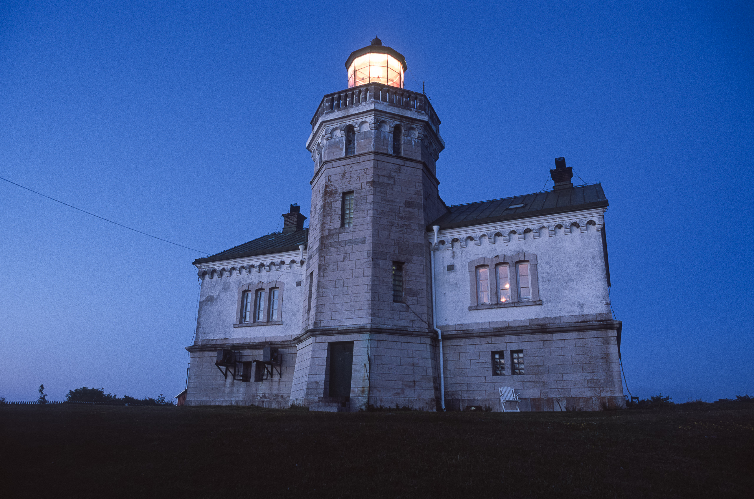 Stora Karlsö lighthouse